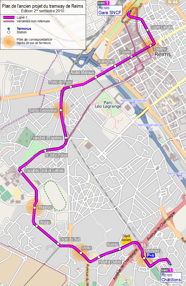 Map of the former tramway project in Rheims France